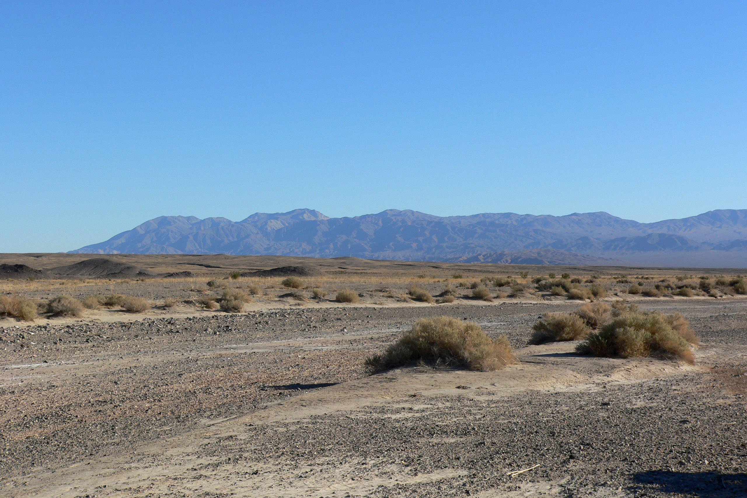 Avawatz Mountains seen from Harry Wade Road, southern Death Valley, California